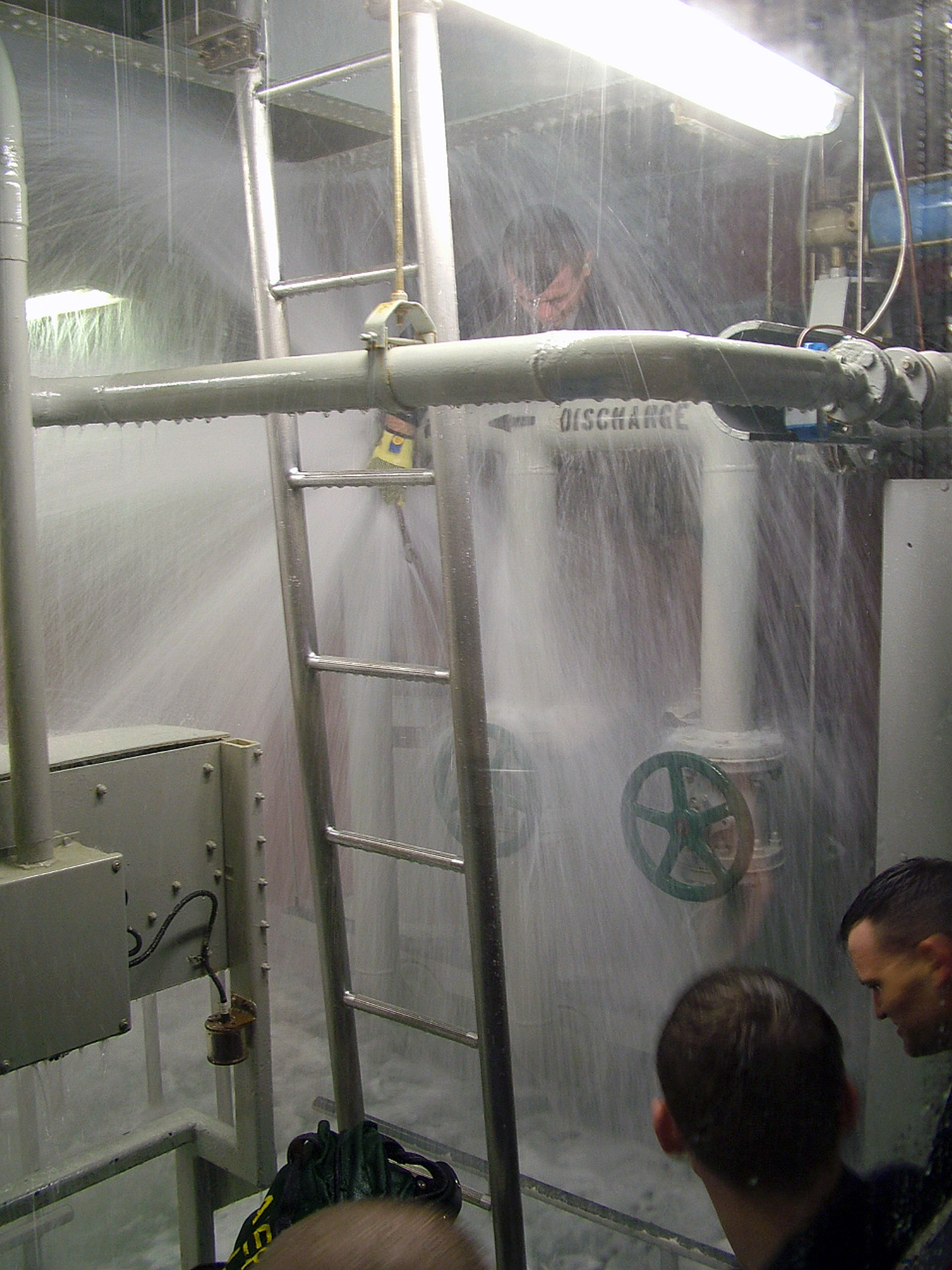 090916-N-9531K-003 GROTON, Conn. (Sept. 16, 2009) Seaman Apprentice Marshall Harris, a student at Basic Enlisted Submarine School (BESS), repairs a simulated engine room leak in the school's damage control wet trainer at Naval Submarine Base New London. (U.S. Navy photo by William Kenny/Released)